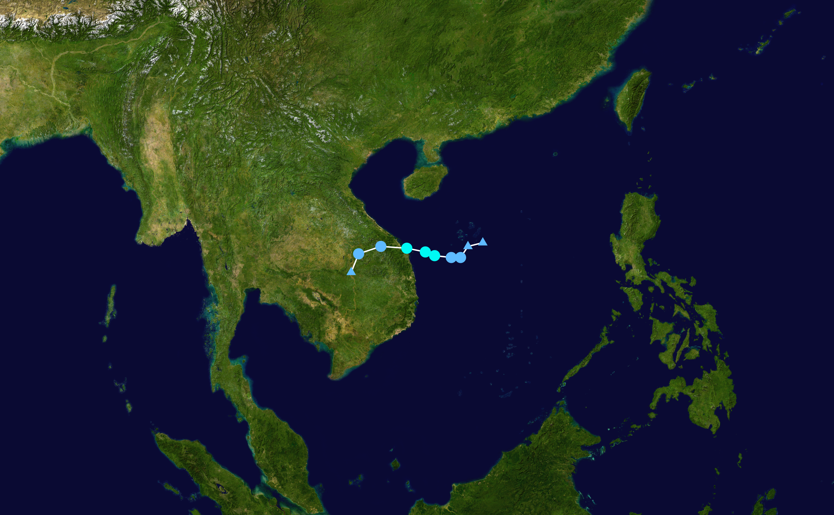 Track map of Tropical Storm Vamco of the 2015 Pacific typhoon season. The points show the location of the storm at 6-hour intervals. The colour represents the storm's maximum sustained wind speeds as classified in the Saffir–Simpson scale (see below), and the shape of the data points represent the nature of the storm, according to the legend below. Saffir–Simpson scale Tropical depression≤38 mph≤62 km/h Category 3111–129 mph178–208 km/h Tropical storm39–73 mph63–118 km/h Category 4130–156 mph209–251 km/h Category 174–95 mph119–153 km/h Category 5≥157 mph≥252 km/h Category 296–110 mph154–177 km/h Unknown Storm type Tropical cyclone Subtropical cyclone Extratropical cyclone / Remnant low / Tropical disturbance / Monsoon depression